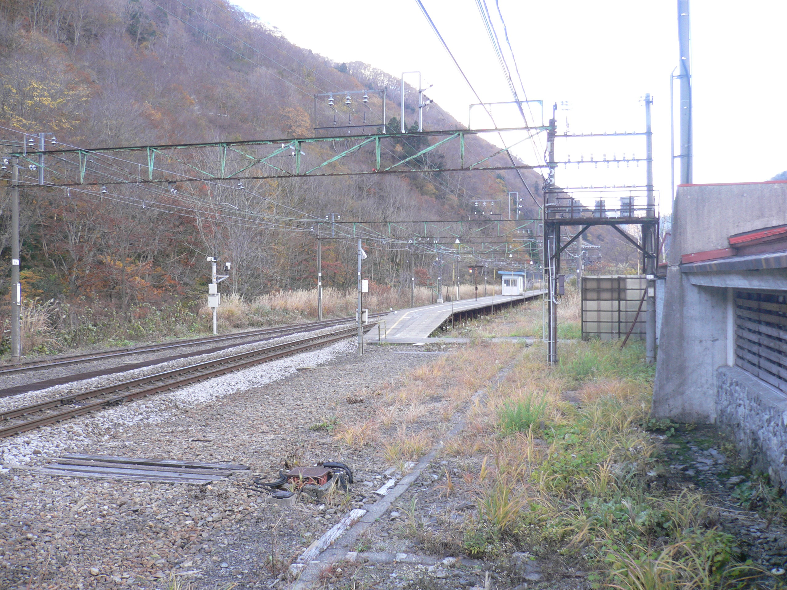 Doai Station (土合駅), Minakami T, Gunma P.